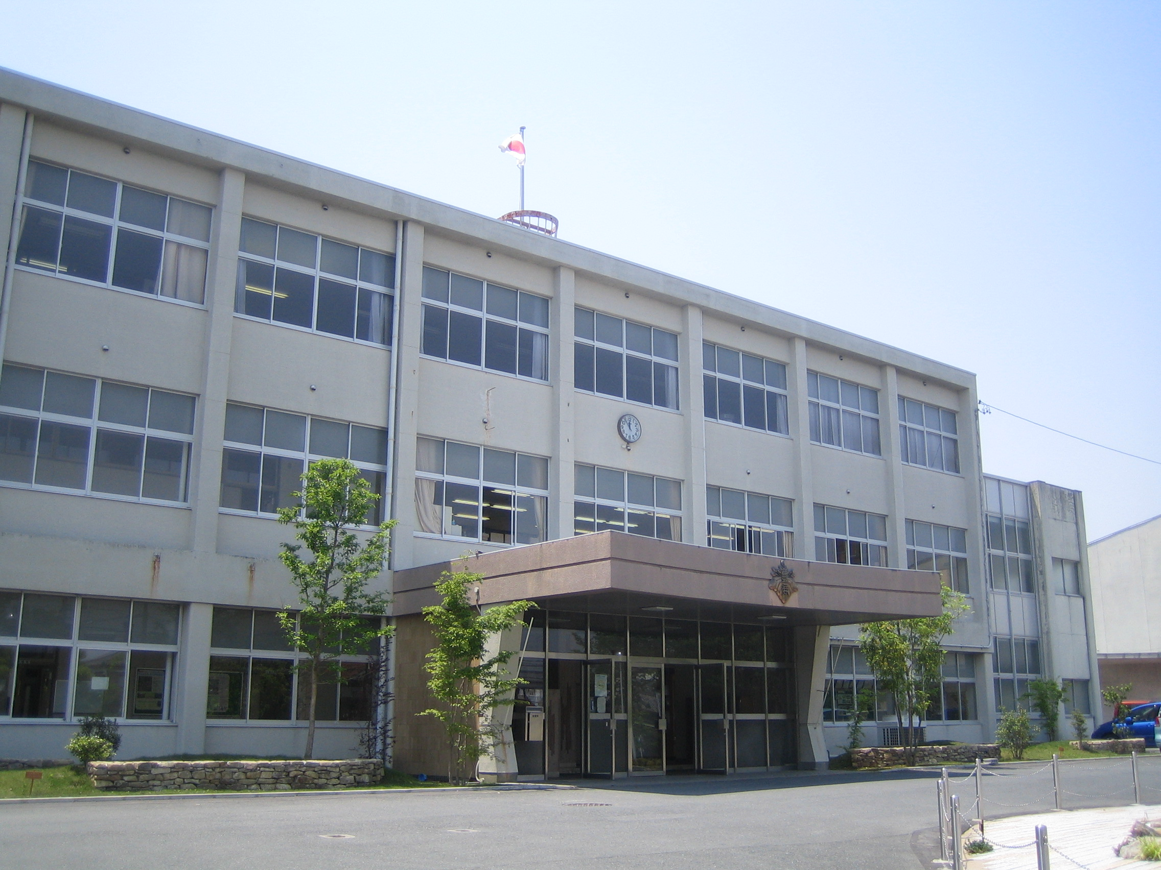 愛知県立豊橋商業高等学校。愛知県豊橋市Aichi Prefectural Toyohashi Commercial High School (愛知県立豊橋商業高等学校 Aichikenritsu Toyohashi Shōgyō Kōtō Gakkō), located in Toyohashi, Aichi, Japan